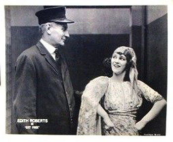 Set Free lobby card (Currently only very low resolution available, replace with larger image when found.)